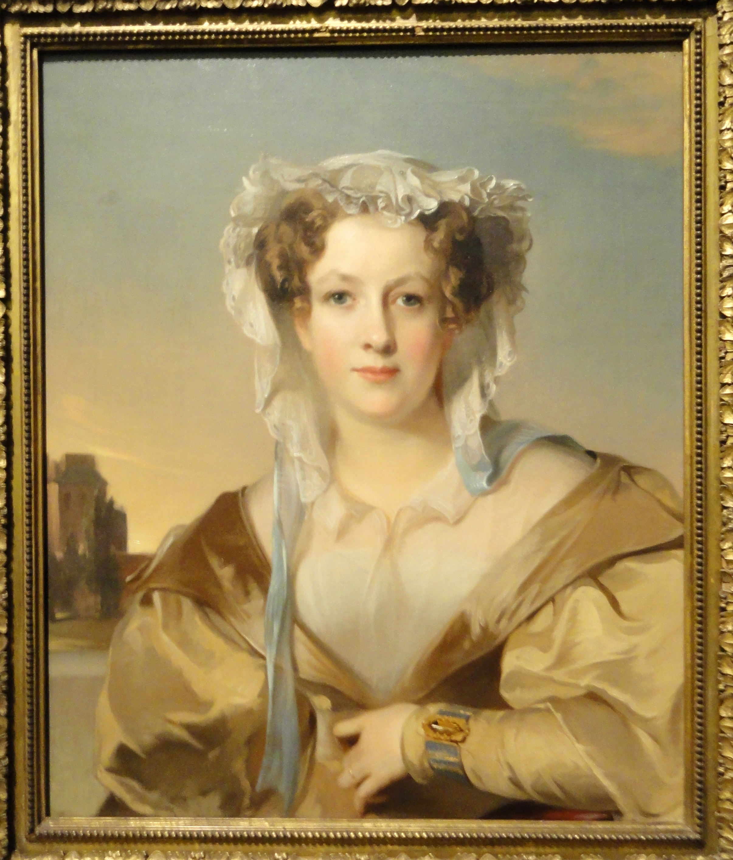 Exhibit in the Nelson-Atkins Museum of Art, Kansas City, Missouri. This artwork is old enough so that it is in the public domain, and the museum permitted photography without restriction. I took this photograph and release it into the public domain.